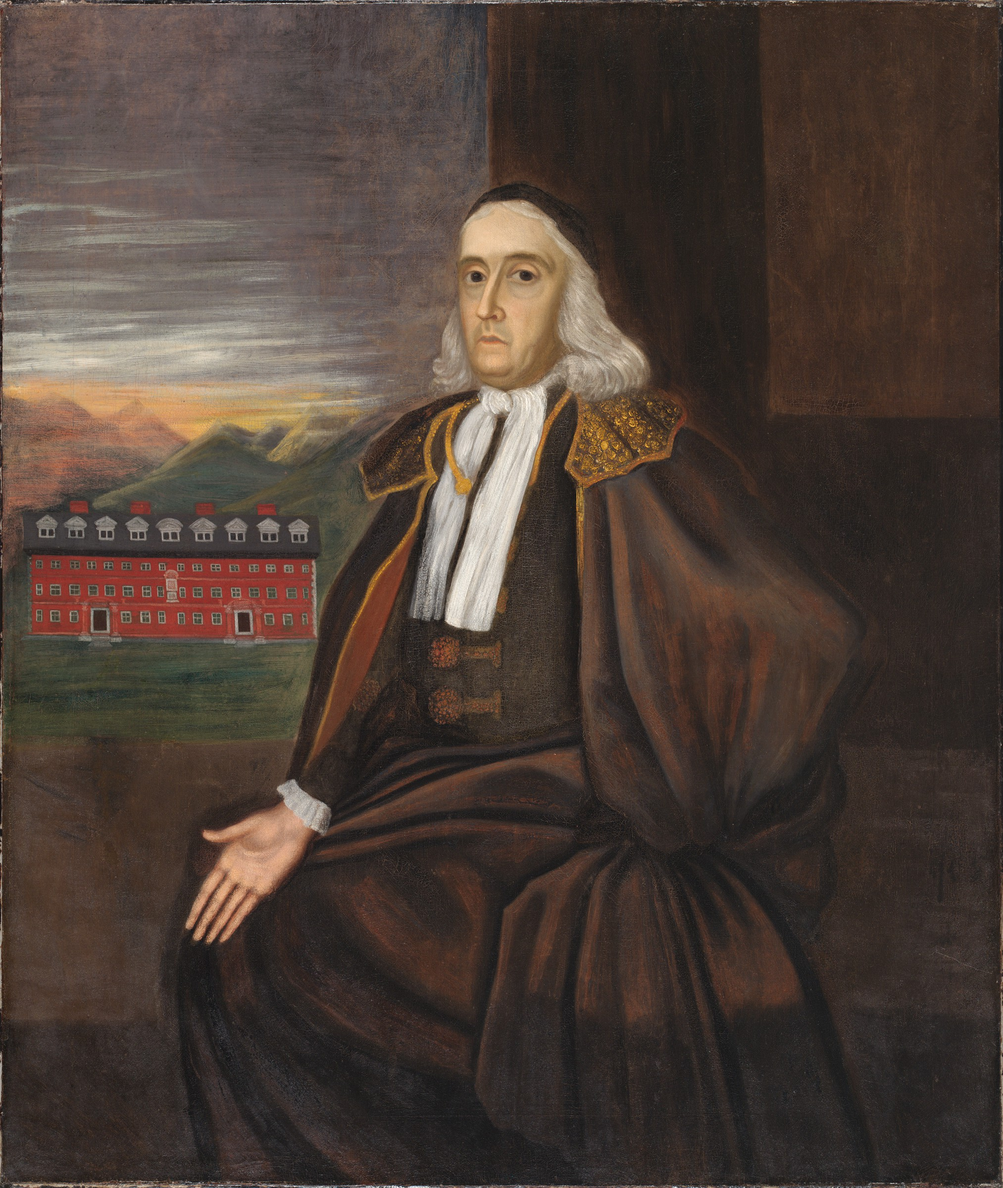 circa 1700 portrait of William Stoughton, Chief Justice in the Salem Witch Courts.